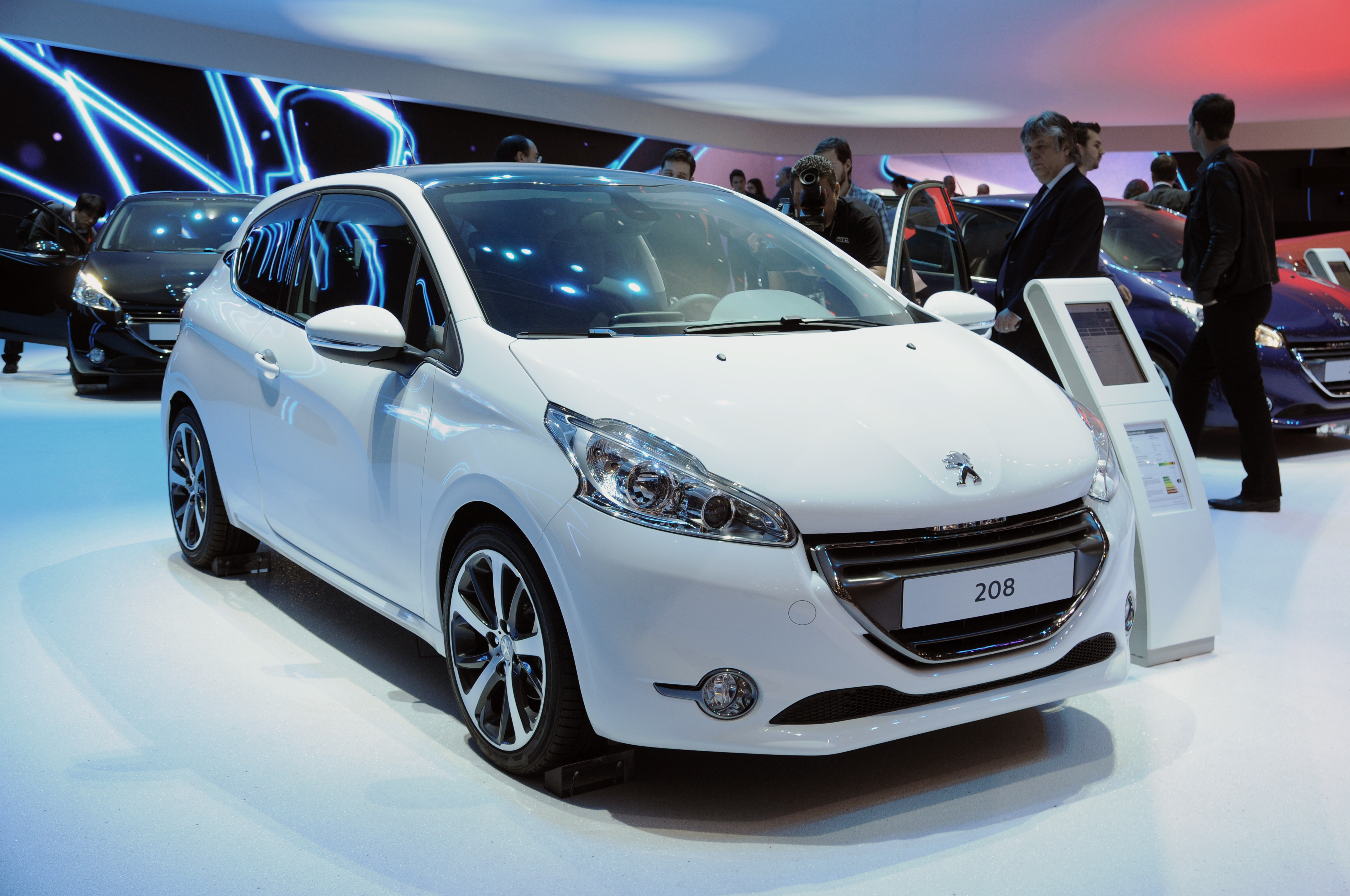 Geneva Motor Show 2012 (photos taken on the second press day). Peugeot 208